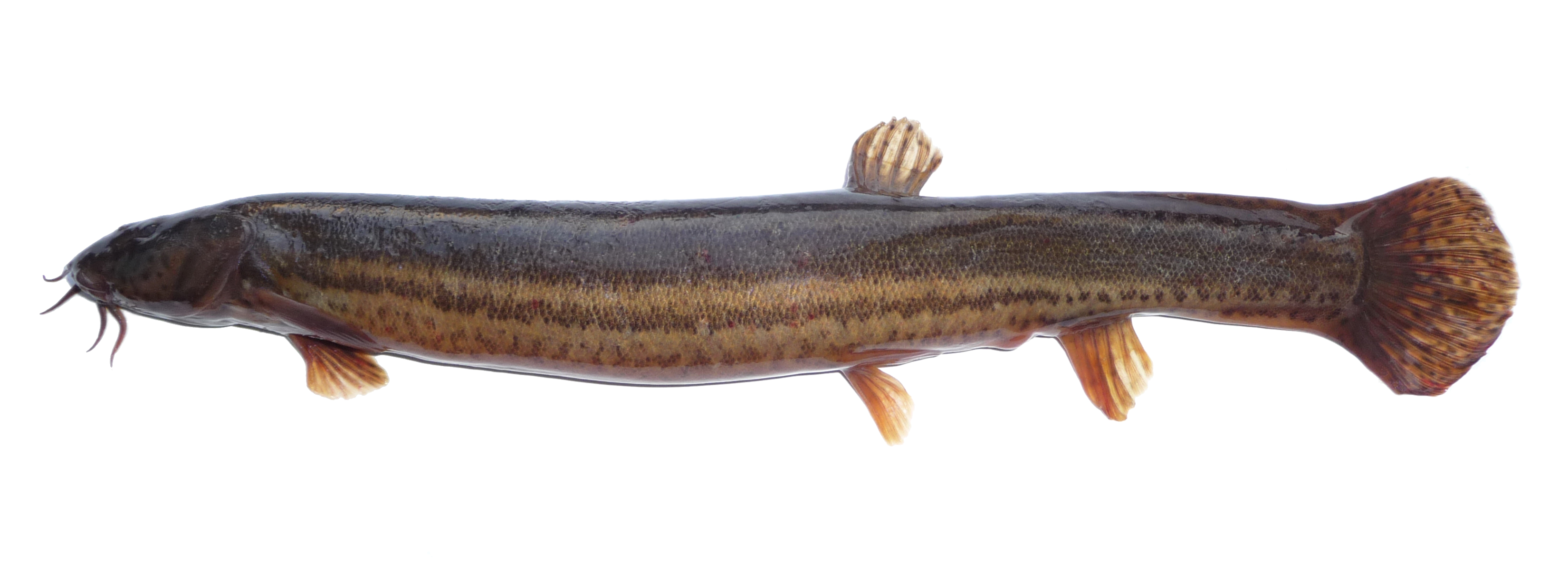 European weatherfish, European weather loach (Misgurnus fossilis). Ukraine. A studio shot